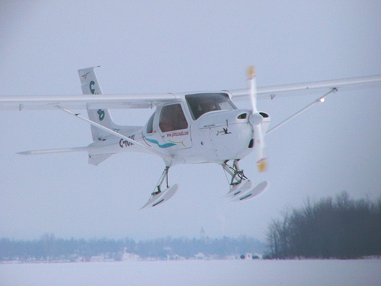 I took this photo of a Jabiru Calypso 2200 on skiis at Montebello 29 Jan 2005